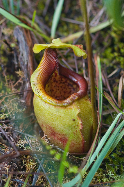 Nepenthes mantalingajanensis at its type locality on Mount Mantalingahan, Palawan (Alastair Robinson, July 2007) - a particularly globose lower pitcher.